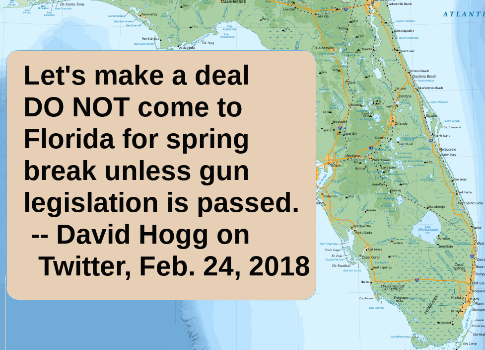 Gun control activist and Parkland Florida shooting survivor David Hogg has called for a tourism boycott if the Florida legislature fails to pass sufficient gun control legislation. Source: New York Post article. He posted this message on Twitter, reaching 213,000 of his followers. The map used in the diagram can be found here where it is licensed under the Creative Commons Attribution-Share Alike 4.0 International, 3.0 Unported, 2.5 Generic, 2.0 Generic and 1.0 Generic license. The words are from David Hogg; text added to the image by tom sulcer.